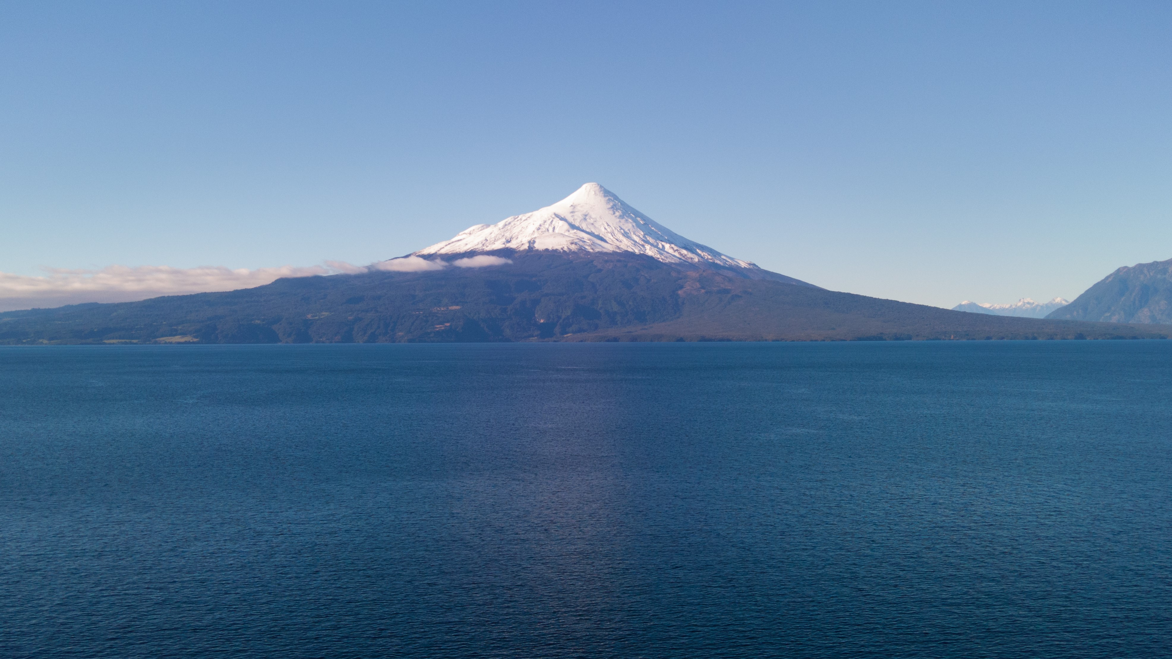 Osorno Volcano and Llanquihue Lake from Los Riscos area, by the highway that goes from Puerto Varas to Ensenada town. The volcano is part of Vicente Pérez Rosales National Park.